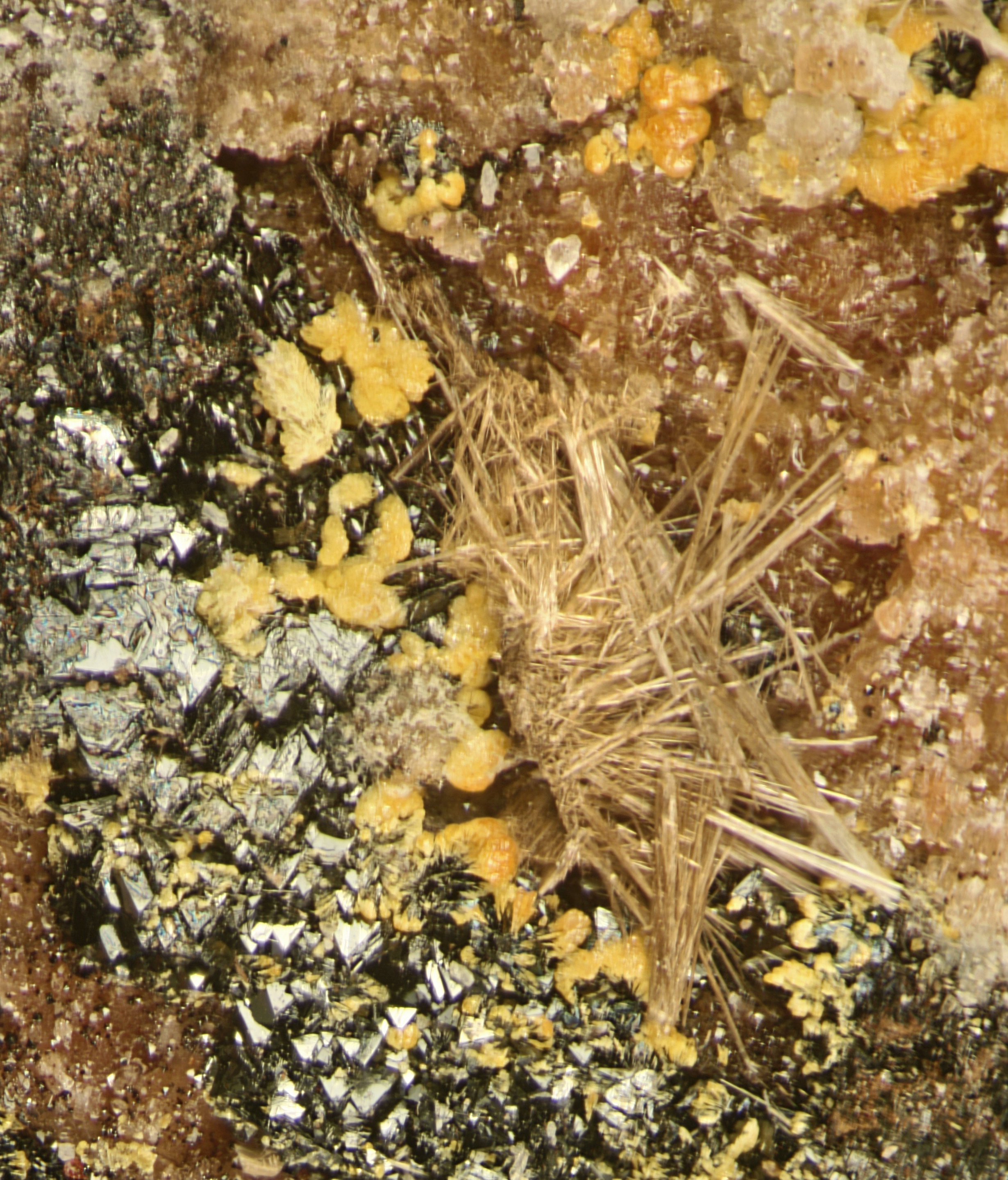 Hetaerolite, Chlorophoenicite, Zincite, Hodgkinsonite Locality Sterling Mine, Sterling Hill, Ogdensburg, Franklin Mining District, Sussex Co., New Jersey, USA Description FOV 4.6 x 5.3 mm. Via Fred Parker. MOB coll. Lustrous jet black hetaerolite (lower left), beige (stained) chlorophoenicite (center), orange/yellow zincite on a bed of dark pinkish hodgkinsonite. The hodgkinsonite xls are small = nothing like Franklin! - but fairly isolated and well formed for SH.